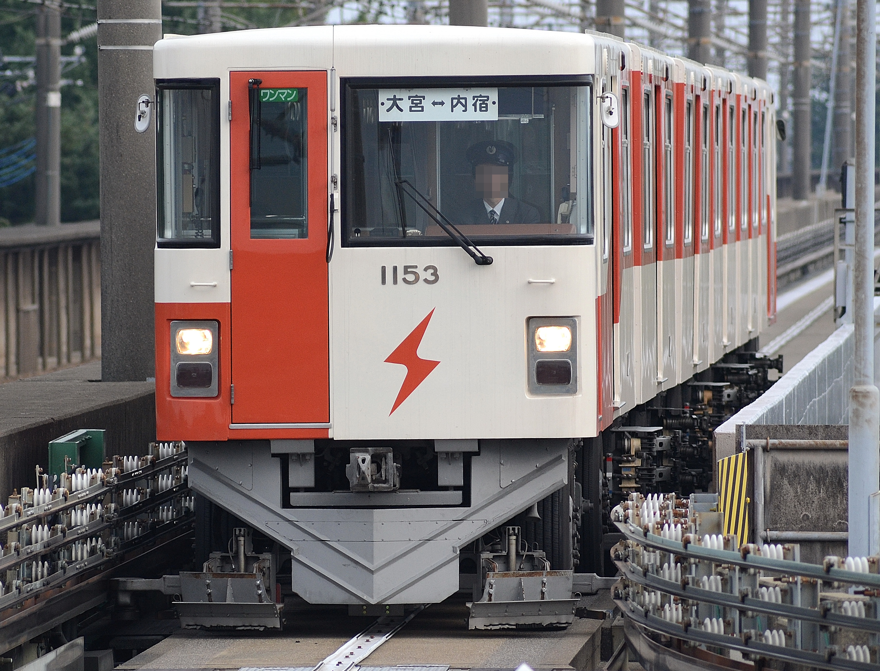 Saitama New Urban Transit "New Shuttle" 1050 series EMU set 53 approaching Hanuki Station